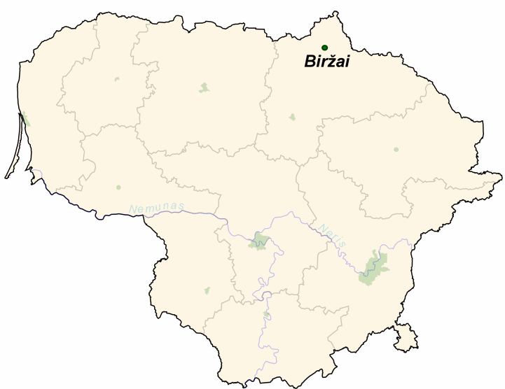 Biržai on the map of Lithuania